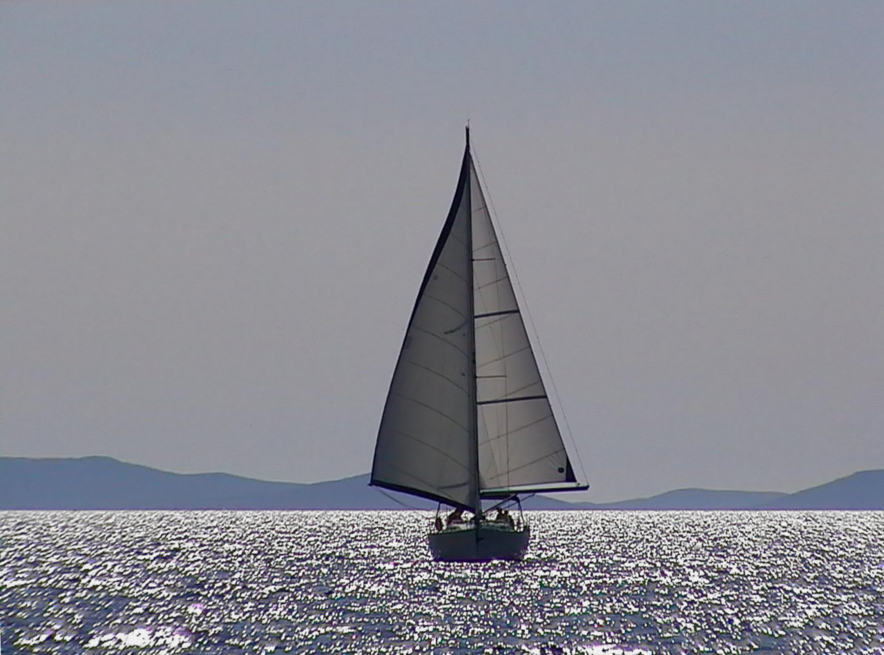 A yacht running downwind with the sails in goose-wing position. Digitally reworked by smial 18:05, 10 November 2006 (UTC)